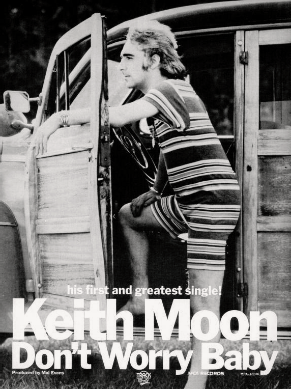 Trade ad for Keith Moon's single "Don't Worry Baby".